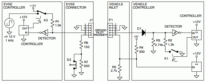 Electrical schematic diagram of the signaling circuit in a J1772 interface